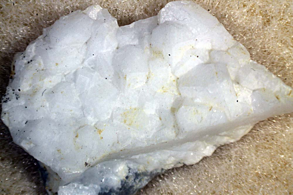 White crystals of the rare silica-hydrocarbon minerals chibaite (IMA 2008-067) and bosoite (IMA 2014-023) from the type and only known locality worldwide for both species: Arakawa, Minamiboso City, Chiba Prefecture, Honshu Island, Japan. Chibaite and bosoite can't be visually differentiated. Natural analogues of synthetic clathrate MTN with hydrocarbon molecules such as methane, ethane, propane, and 2-methyl-propane contained in its cage-like voids. Chibaite and bosoite are also described as a clathrasils. Ex Alfredo Petrov specimen.